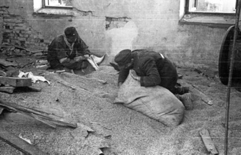 WarsawUprising: Insurgents pack barley found in Haberbusch & Schiele brewery at Ceglana 4/6 street (now called Pereca Street).